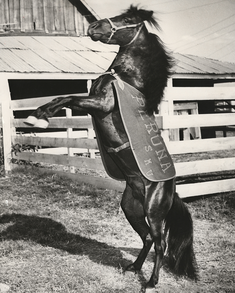 Title: Peruna III bucking Creator: Laughead Photographers Date: 1940s Place: Dallas, Texas Physical Description: 1 photographic print: black and white; 25.4 x 20.3 cm. File: athl_195y_Perunabucking_91-12_opt.tif Rights: Please cite SMU Archives, Southern Methodist University when using this file. For more information, . For more information, View Southern Methodist University Campus Memories